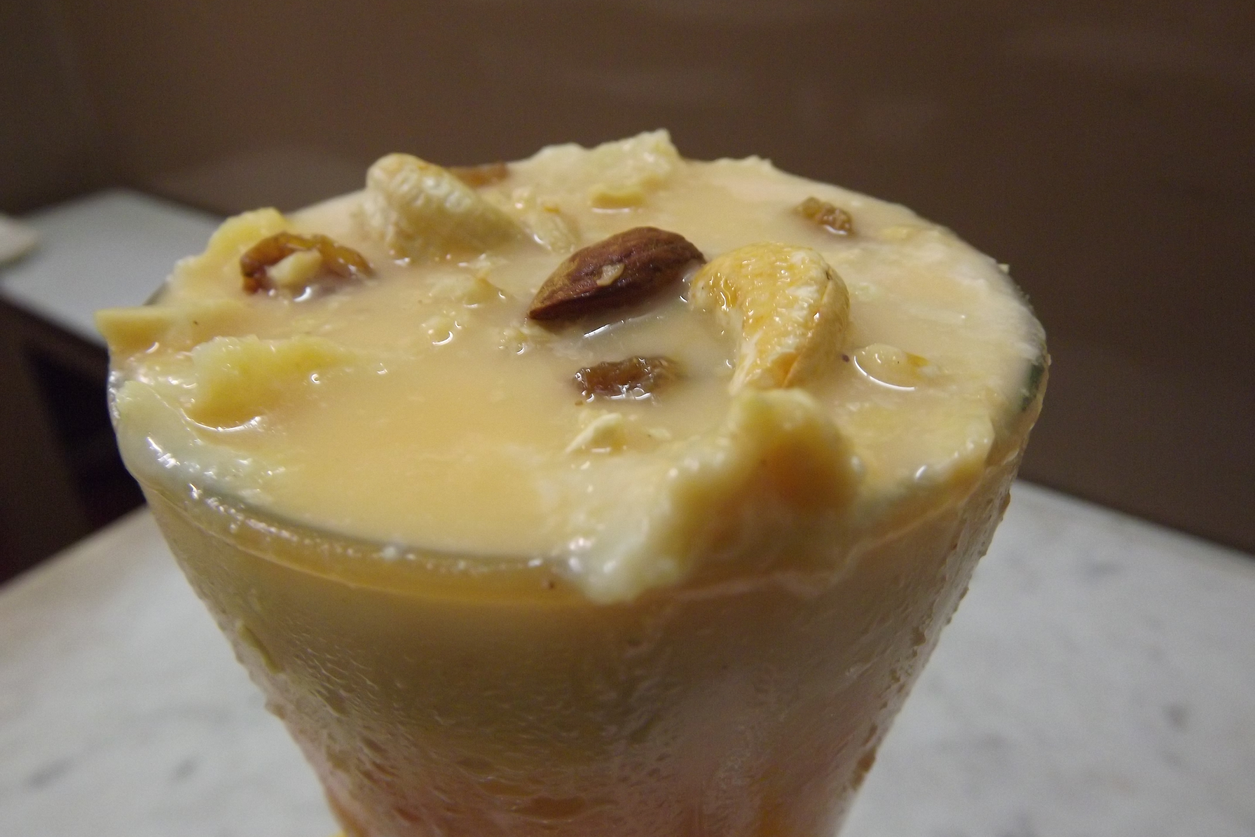 Passion fruit sharbat